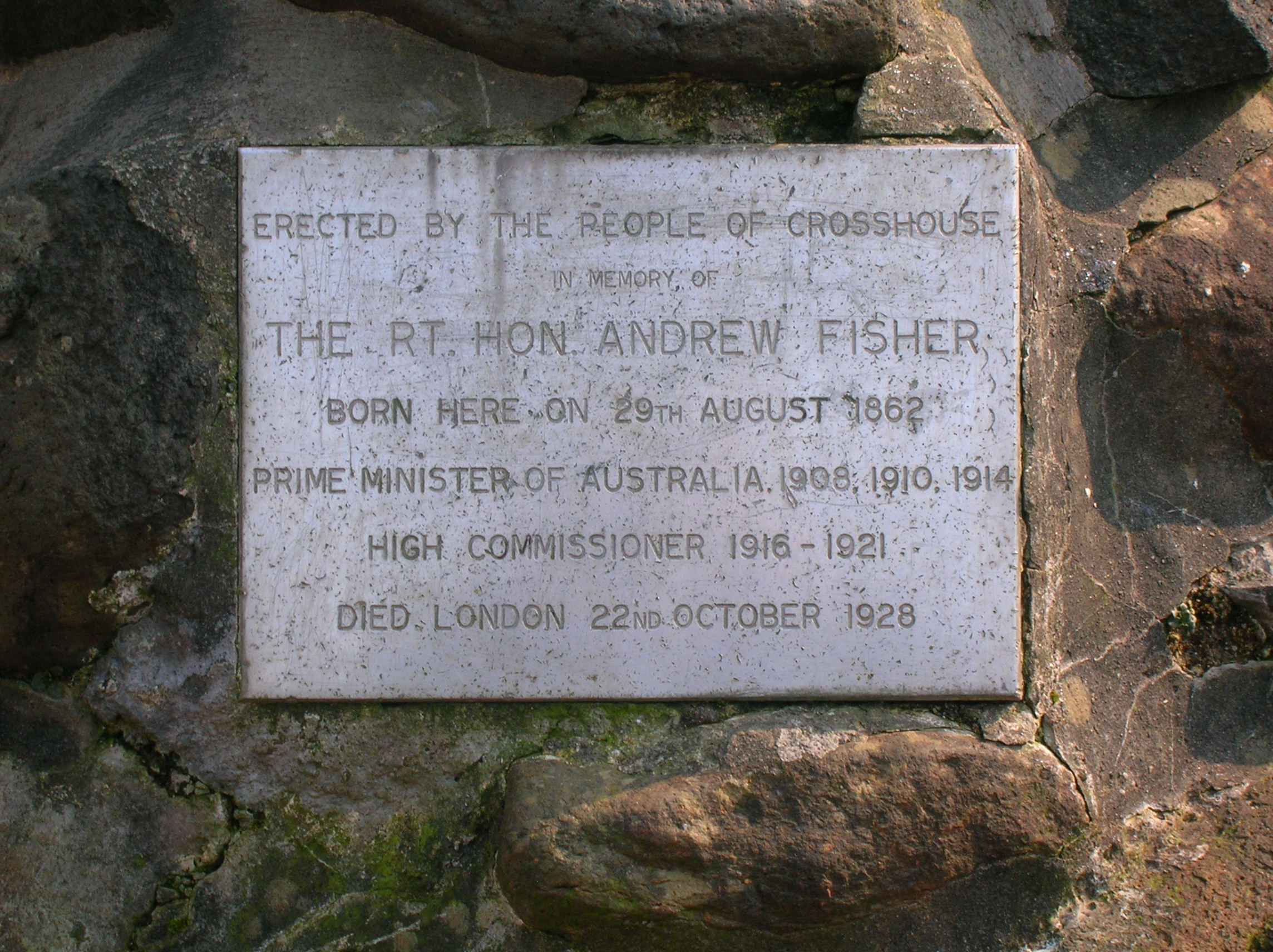 The Plaque on the cairn dedicated to the memory to Andrew Fisher in Crosshouse (his birthplace), North Ayrshire, Scotland. 2007.